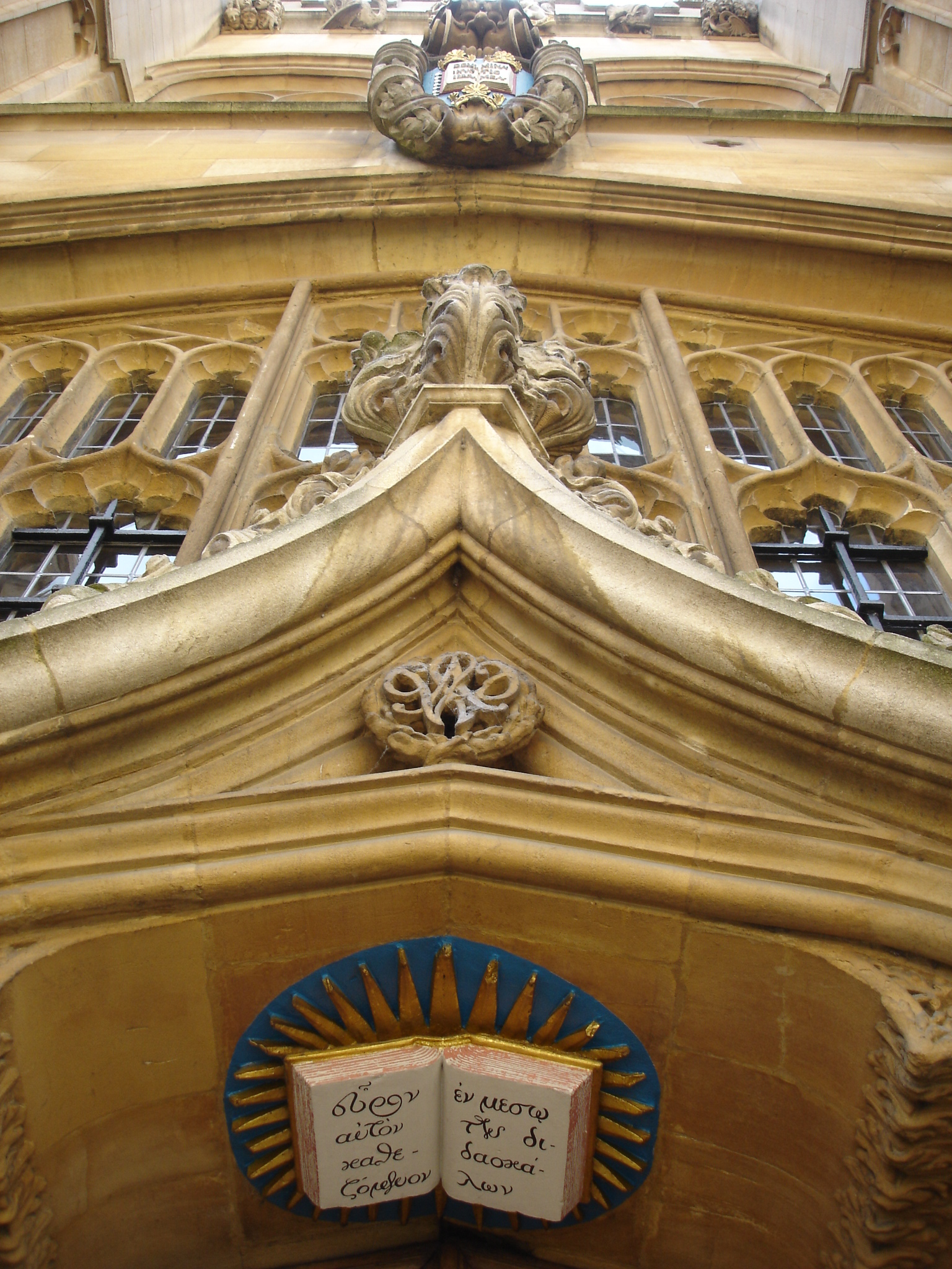 Bodleian Library, Oxford